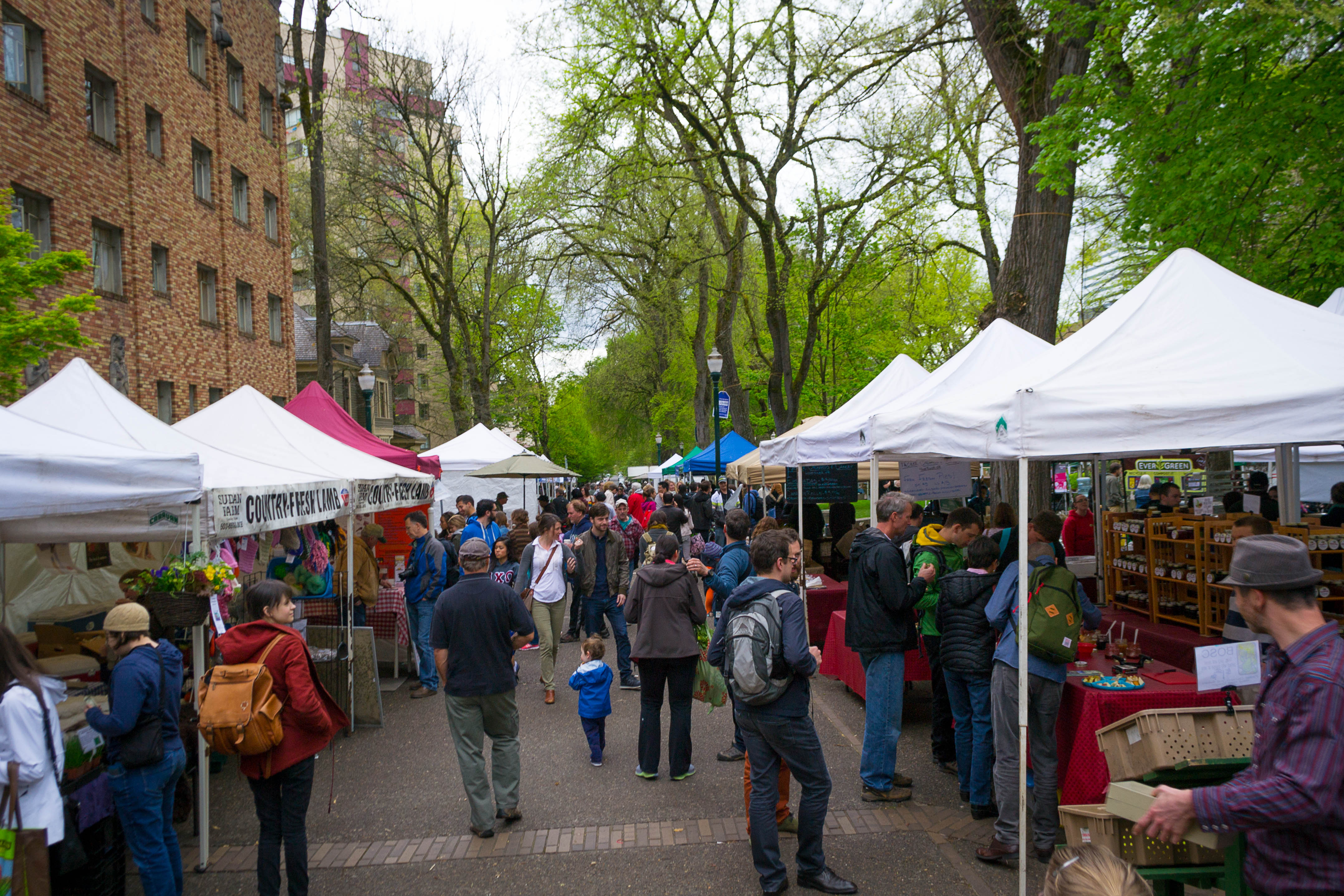 Portland Farmers Market in the South Park Blocks at Portland State University